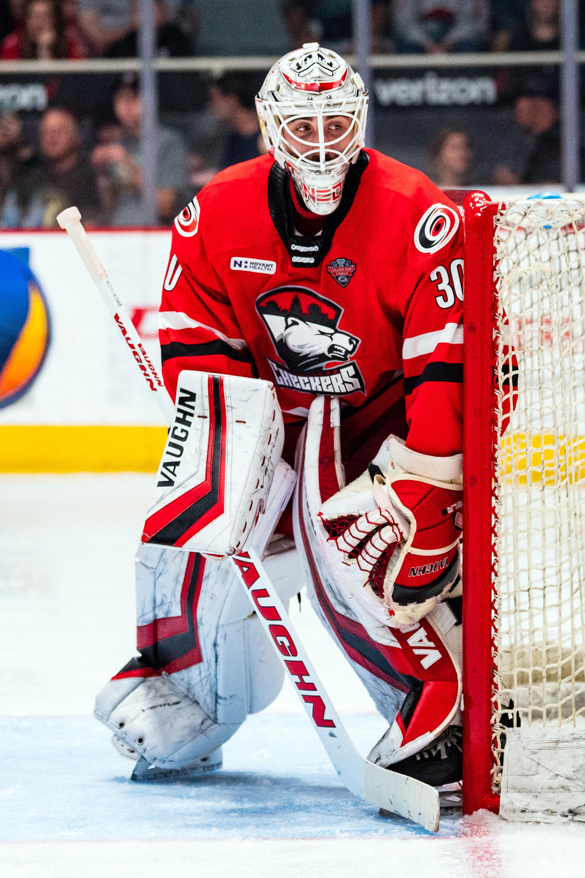 Photo: Jacob Kupferman